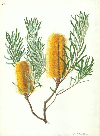 This is an image of a watercolour painting of Banksia collina, now Banksia spinulosa var. collina.